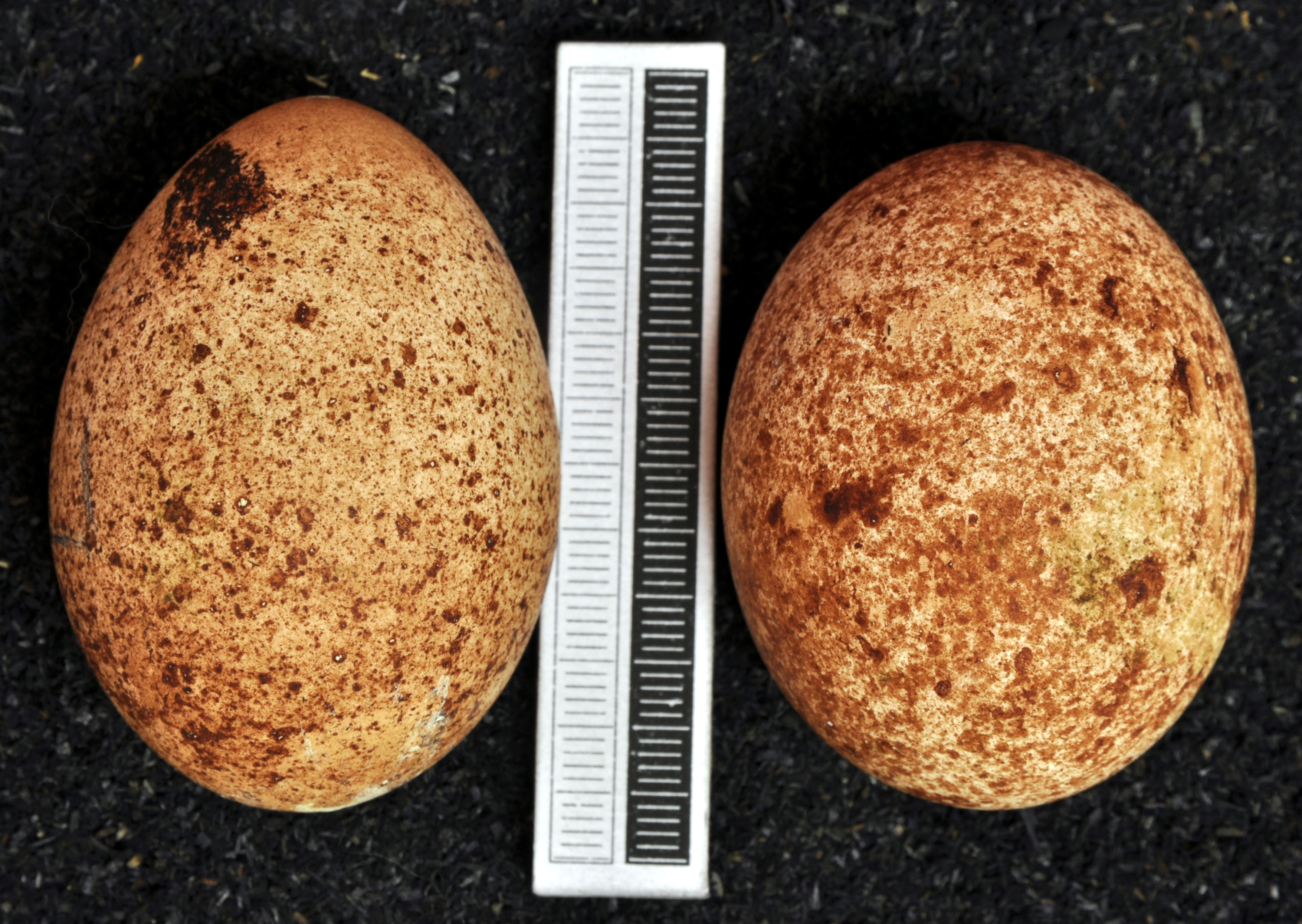 Lanner falcon Falco biarmicus , egg, Coll. Museum Wiesbaden